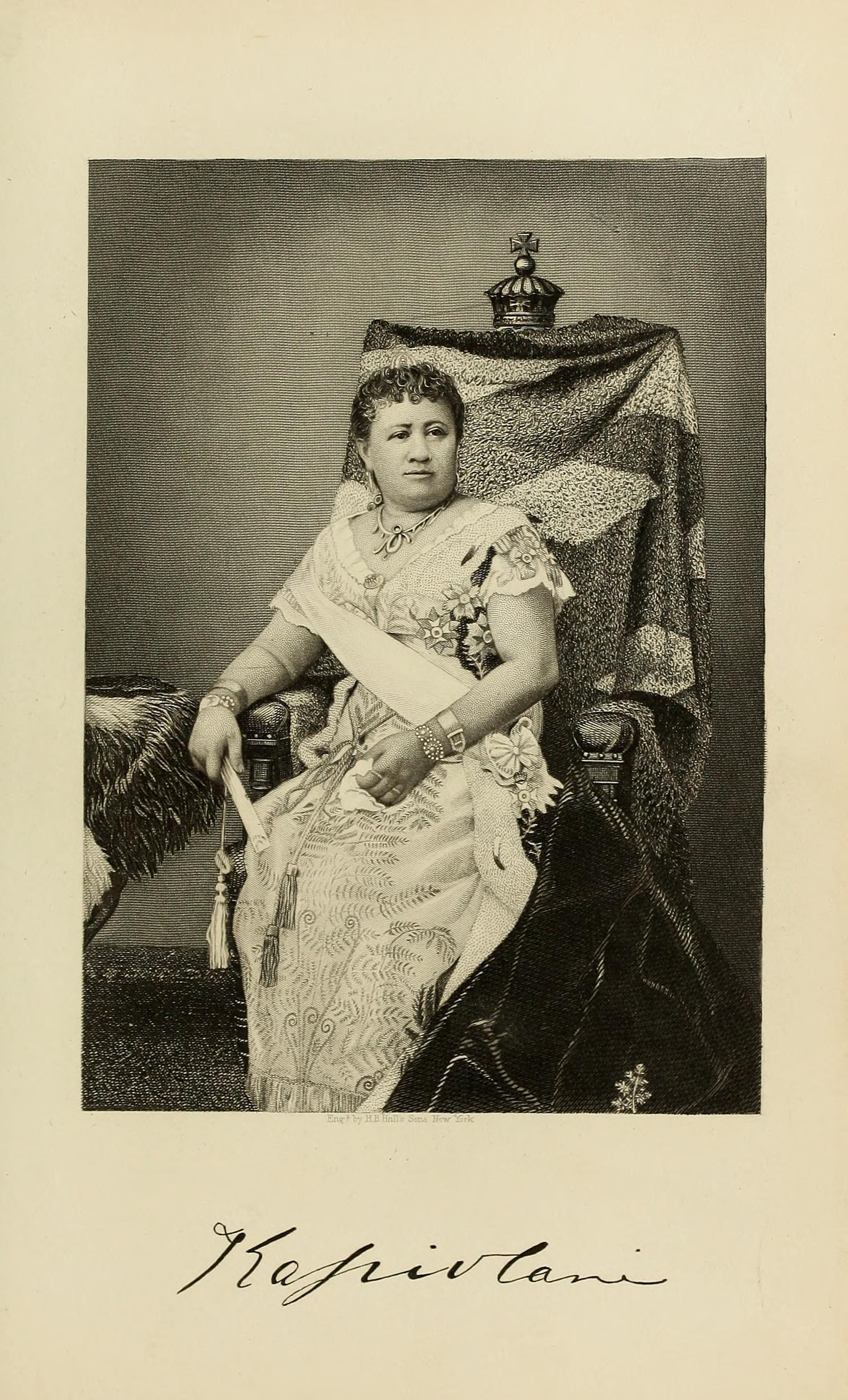 Queen Kapiolani sitting on chair draped with feather cloak.